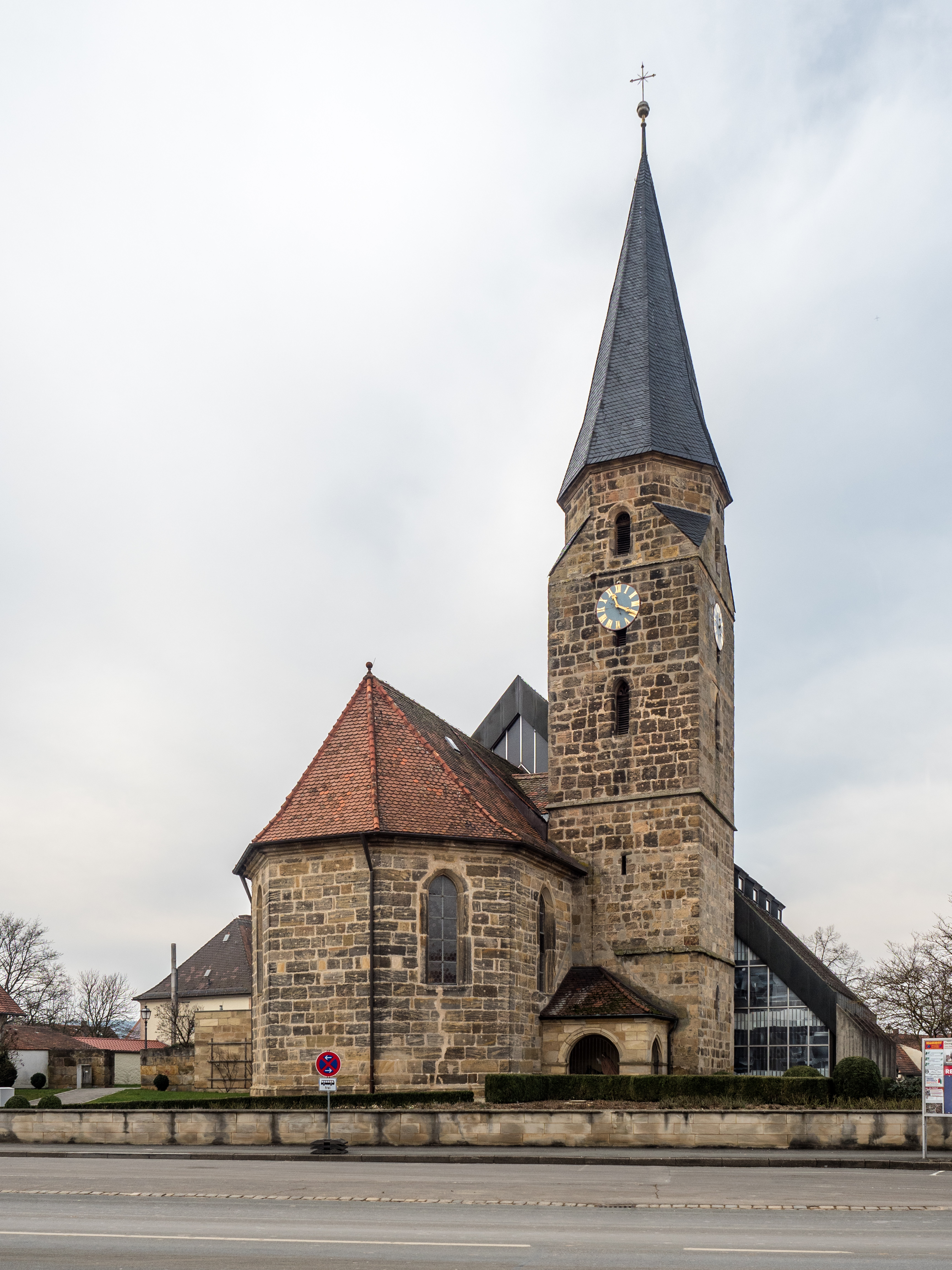 Parish Church of St. Leonhard in Breitengüßbach